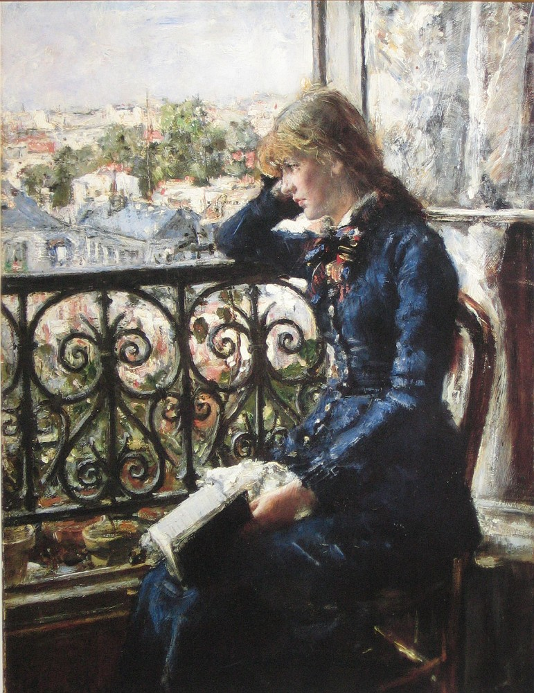 At the window